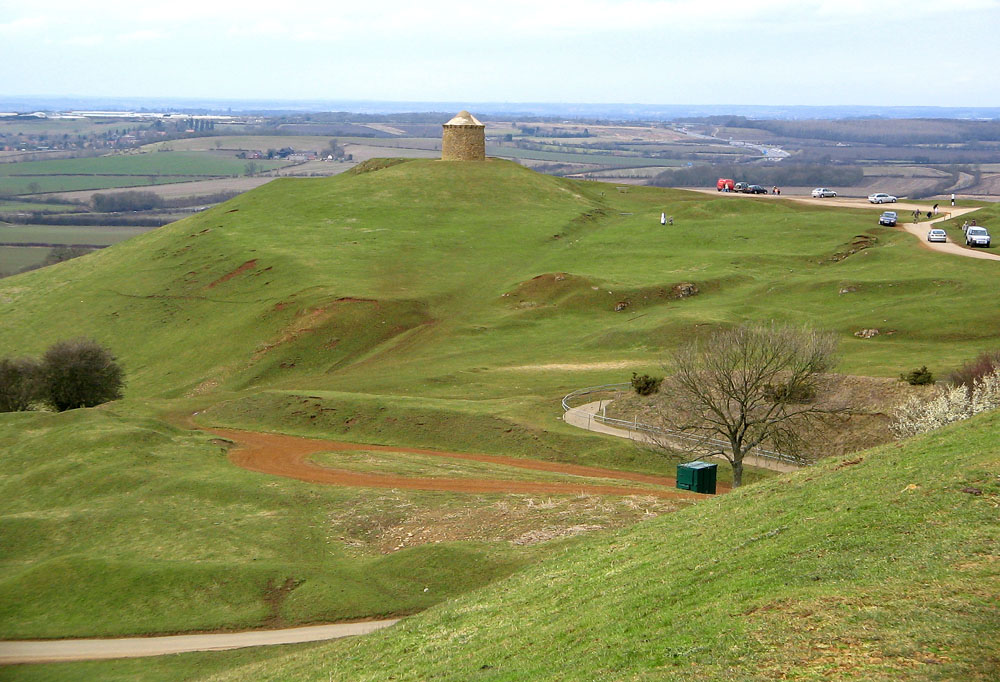 A view of the Burton Dassett Hills in Warwickshire, England. Photo by G-Man March 2005